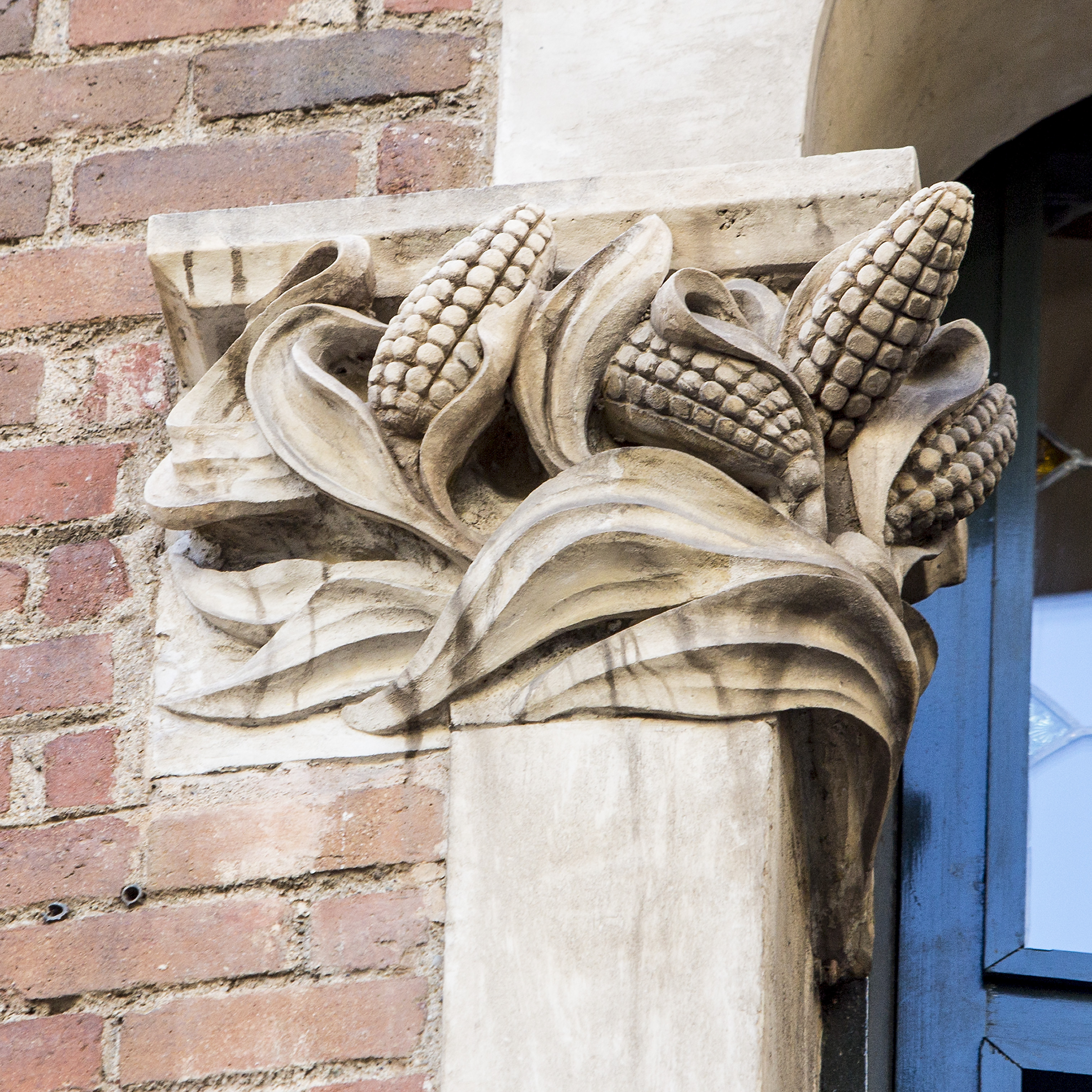 BARCELONA 19/01/2016 CASA DE LES PUNXES FOTO FERRAN NADEU